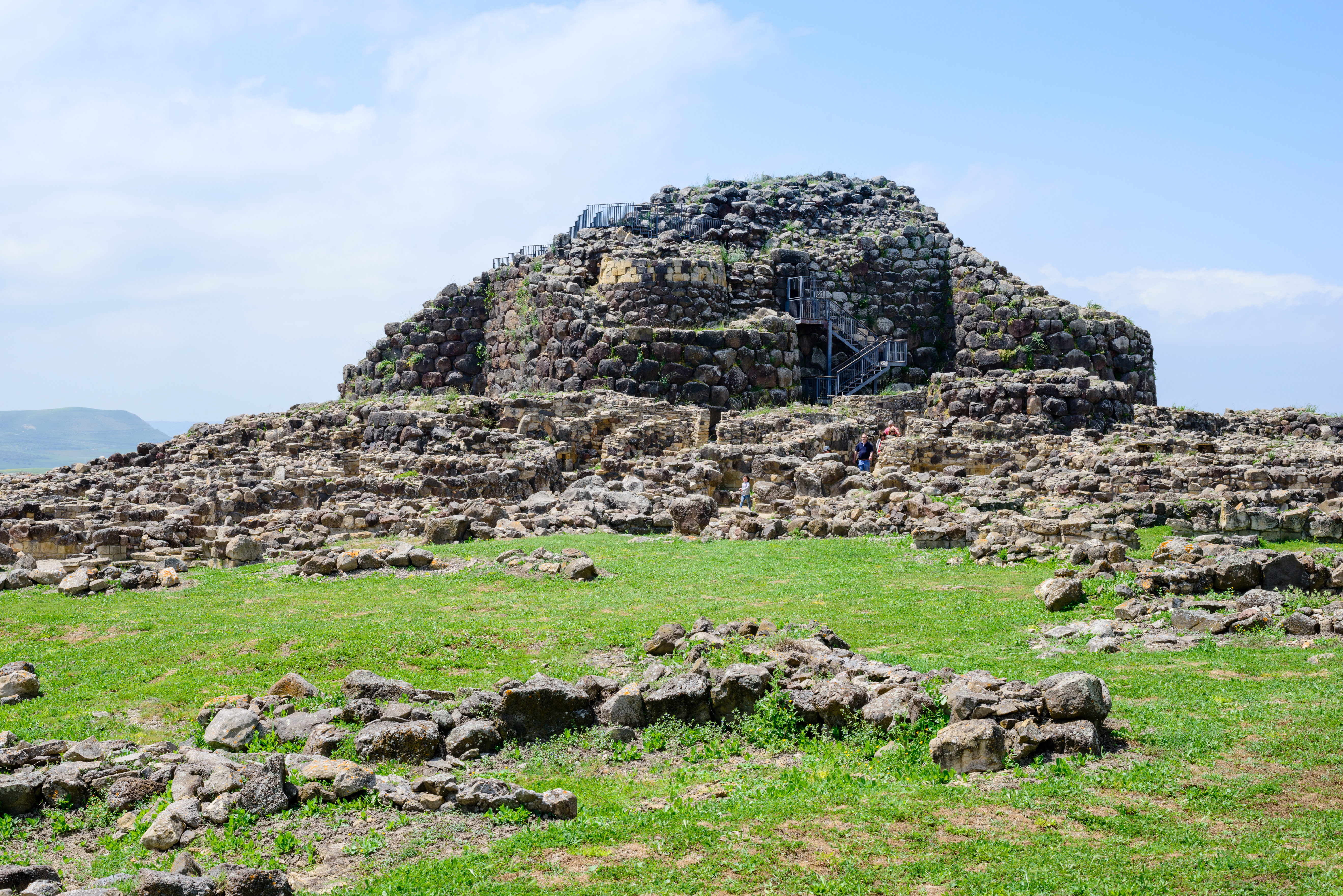 Su Nuraxi is a nuragic archaeological site in Barumini, Sardinia, Italy. The complex is centred around a three-storey tower built around the 16th century BC.